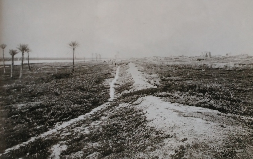 View of the ruins of the fort built on the Nile at Fashoda by the Egyptians in the mid-19th century. The entrance arch of what is left of the fort is visible in the background on the right. Photograph taken in July 1898.